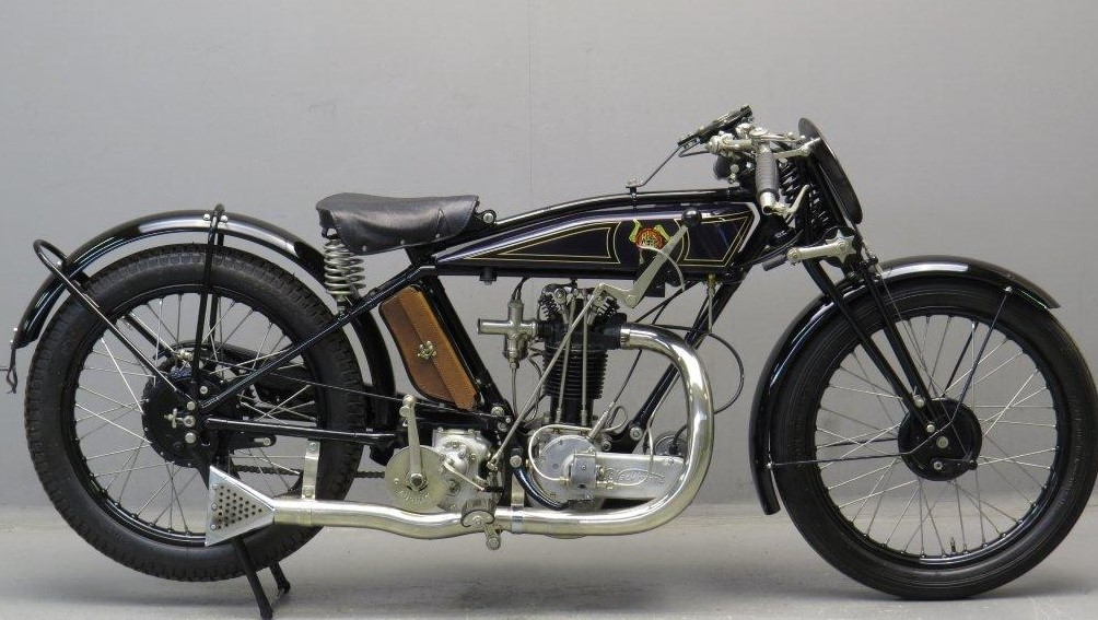 1926 Rex-Acme Isle of Man TT Replica 350 cc racer